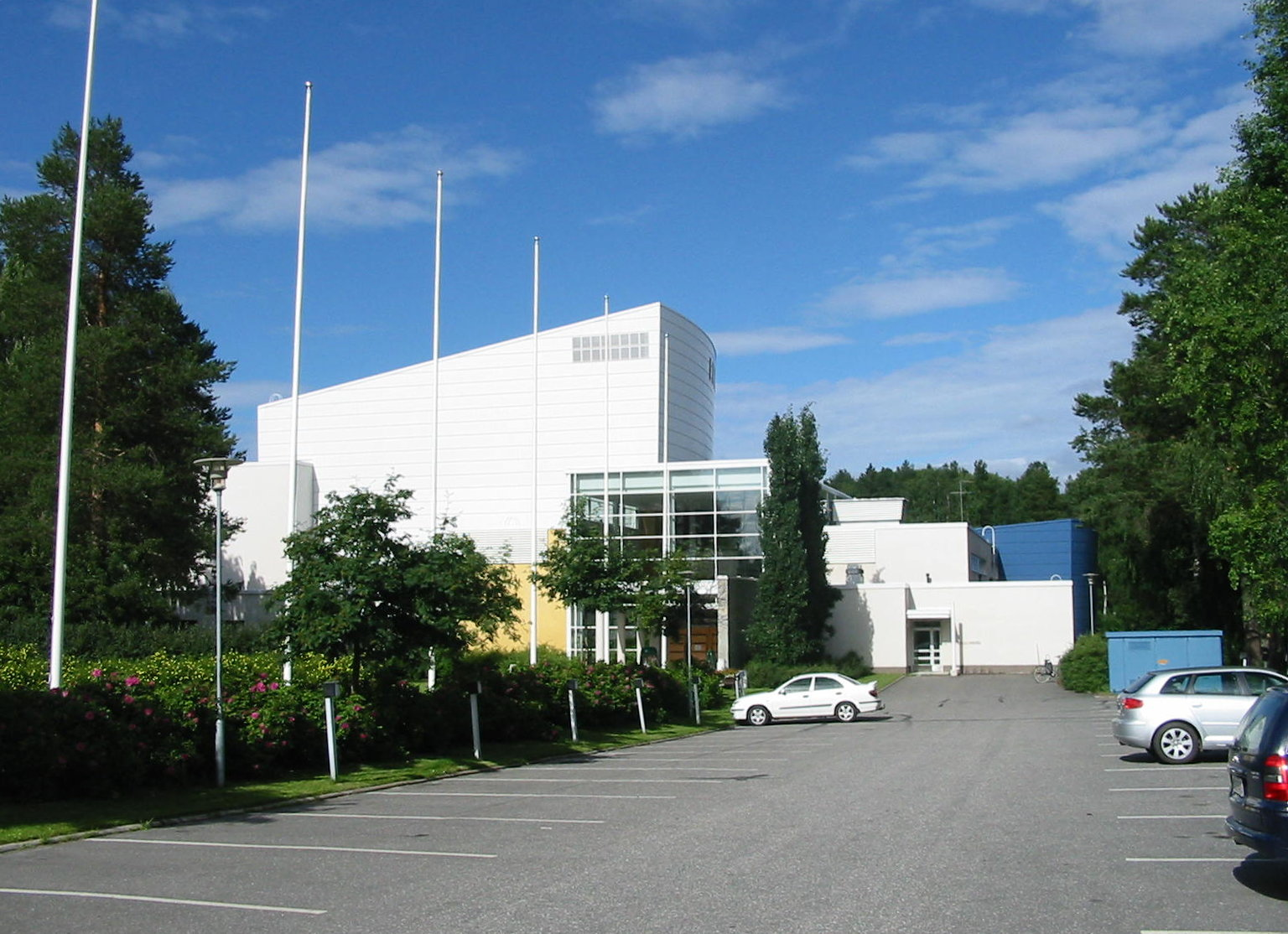 Kuhmo Arts Centre (Kuhmo-talo), in Kuhmo, Finland. From front. Building was designed by architect Matti Heikkinen (of architect office UKI Arkkitehdit) and it was completed in 1993.